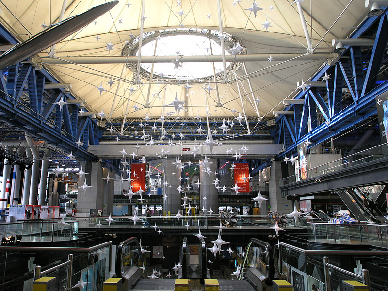 Largest European Science Musem, Paris 2006.